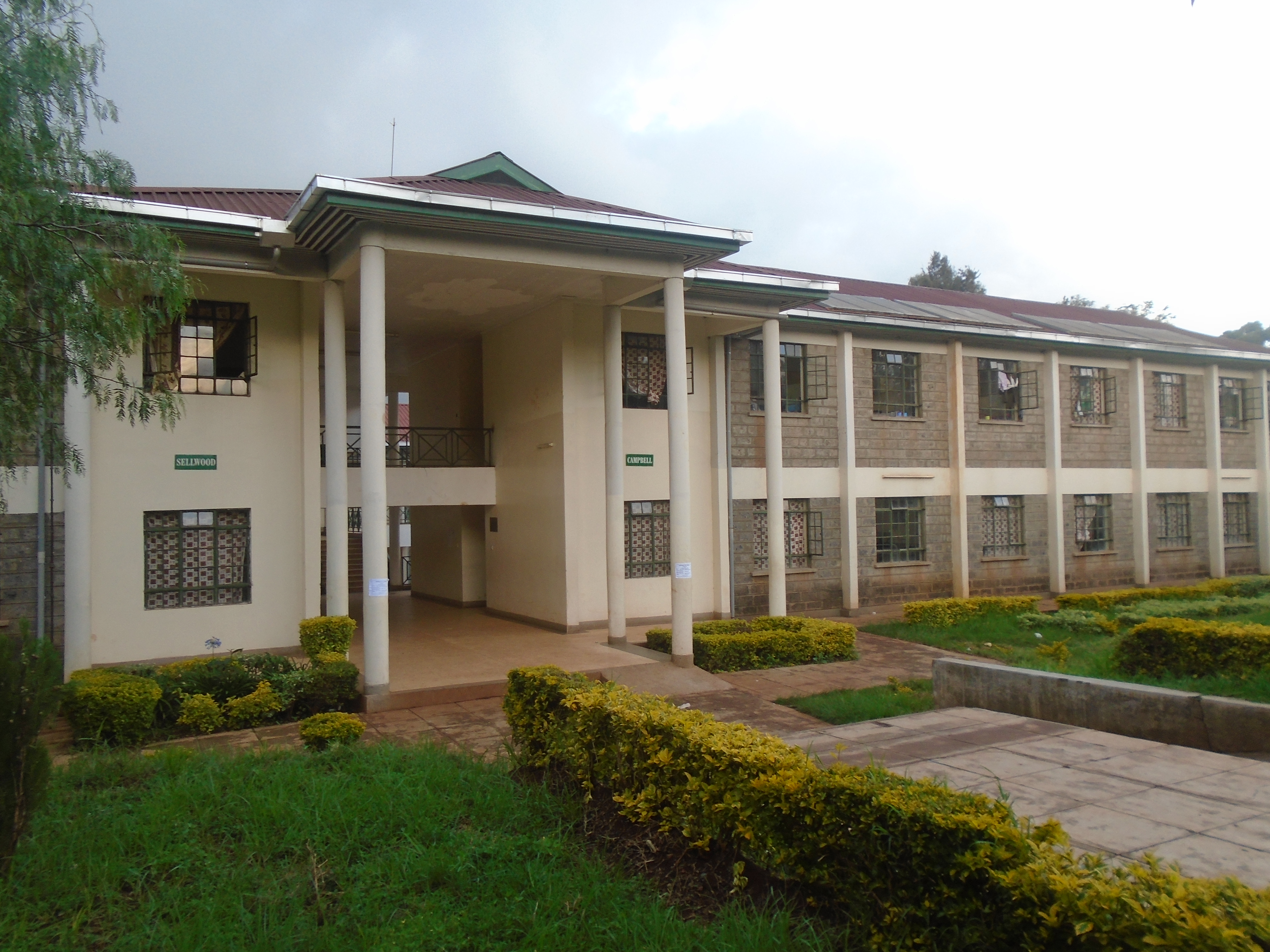 One of the House blocks at Alliance High School